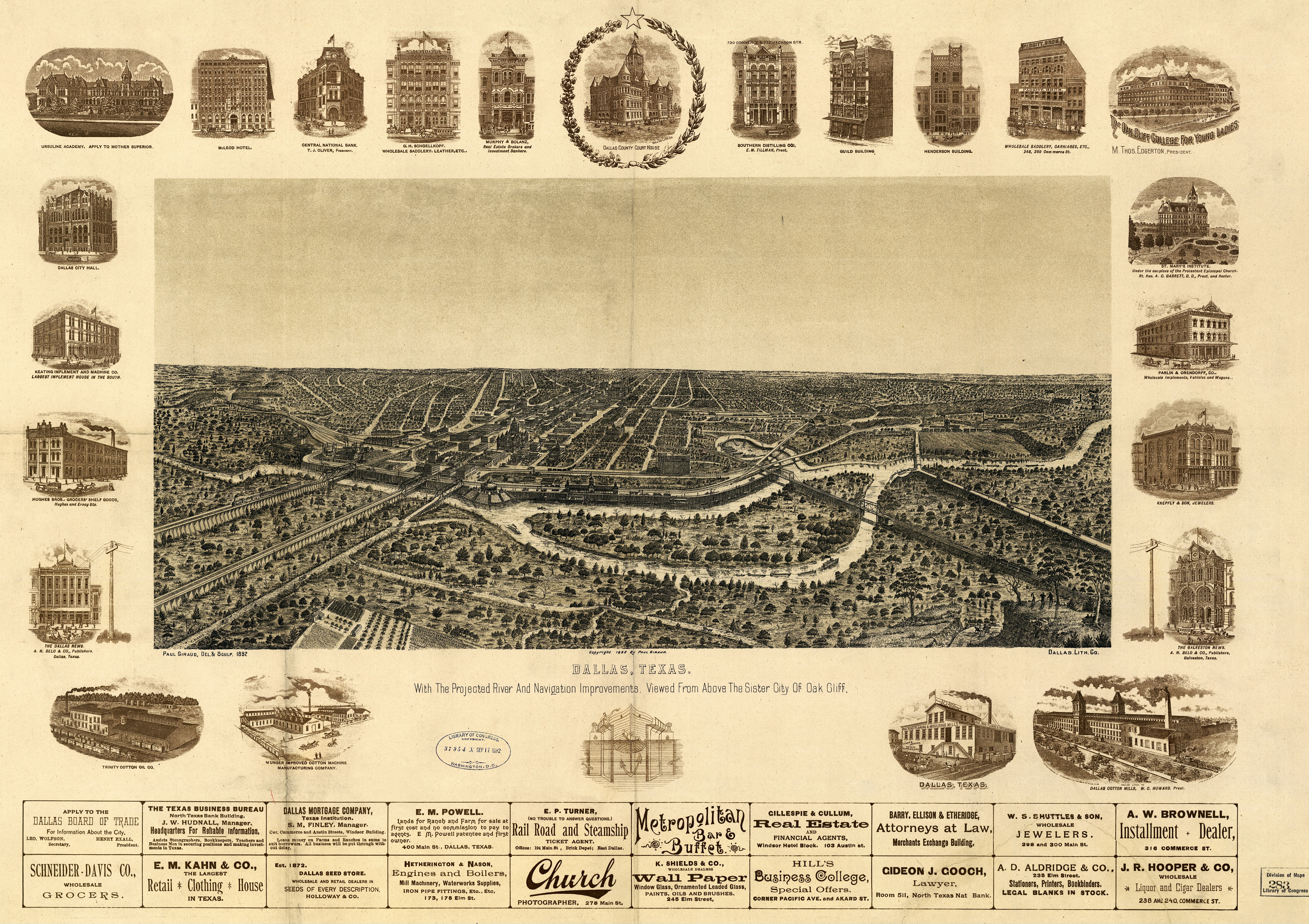 Dallas in 1892. Dallas, Texas. With the projected River and Navigation Improvements Viewed from Above the Sister City of Oak Cliff, 1892. Toned lithograph, 20 x 29 in. by Dallas Lith. Co. Geography and Map Division, Library of Congress.